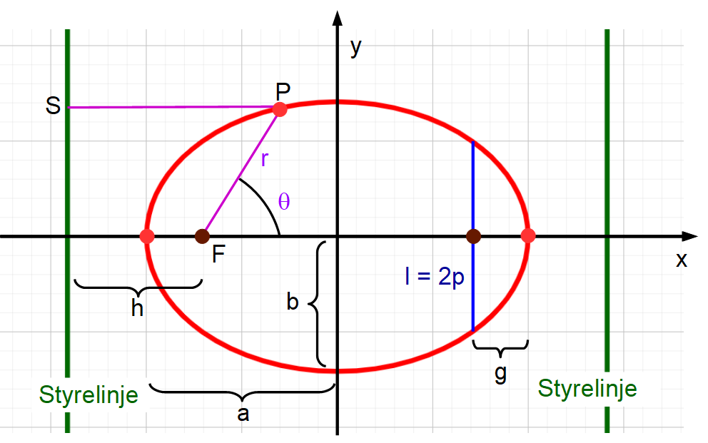 Parameters for a conic section - ellipse. Norwegian